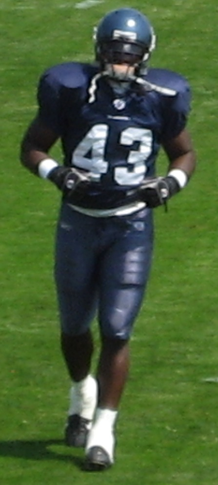 Picture of Seahawks Practice Scrimage at Eastern Washington University, Cheney Washington. Leonard Weaver post kick return as Mike Gomez looks on.